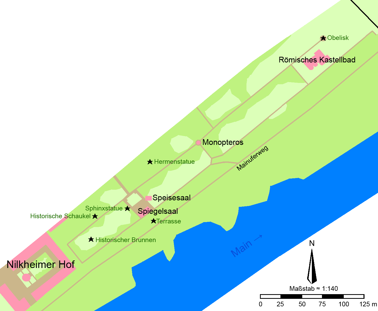 Map of Nilkheimer Park in Aschaffenburg, Bavaria Building Forest, Tree Meadow Body of water tourist attraction Trail